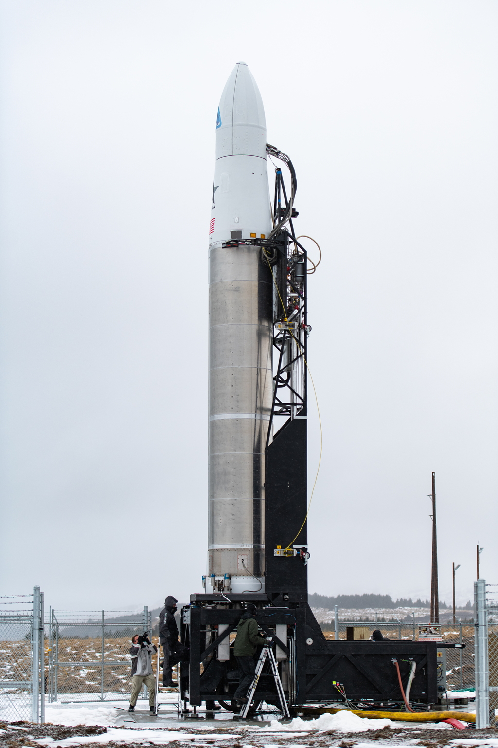 Debut of Astra’s small satellite launcher